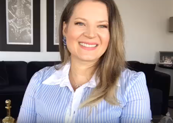 Joice Hasselmann